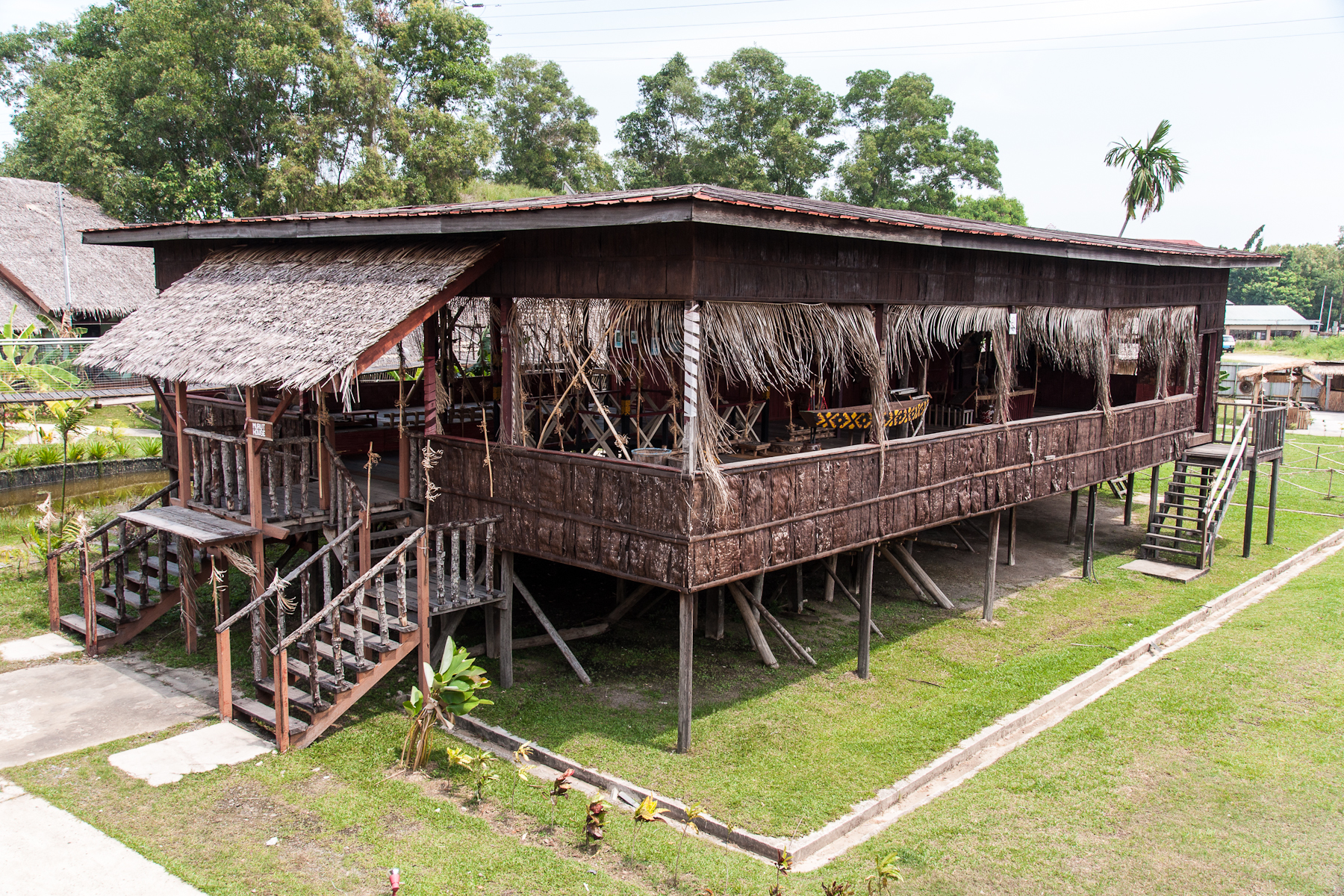 Penampang, Sabah: Murut Longhouse at the exhibition area of Hongkod Koisaan